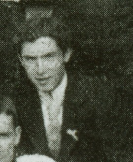 Photo of Tom Carmody from 1899-1903